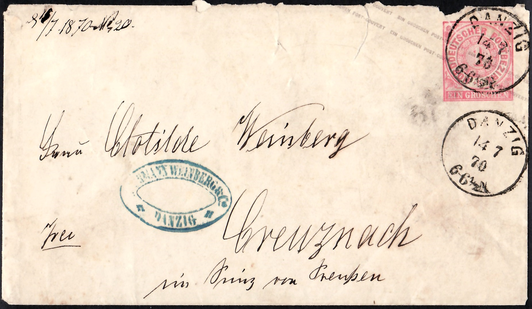 Postal stationary letter cover of the North German postal district from Danzig (contemporary Gdansk) to Creuznach (Bad Kreuznach) of 14th July 1870, 1 Groschen coinage in the stamp drawing (crimson) of 1868